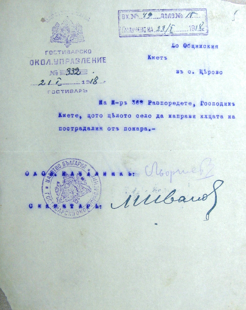 Request to organize Tserovo whole village to help victims of the fire. January 21, 1918. This media file is produced by Wikipedian in Residence in Category:Wikipedian in Residence at DARM in 2016.